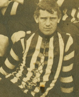 Photograph of George Marsh in 1905